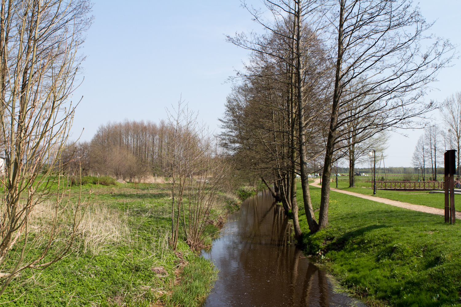 Szkwa - a river in eastern Poland